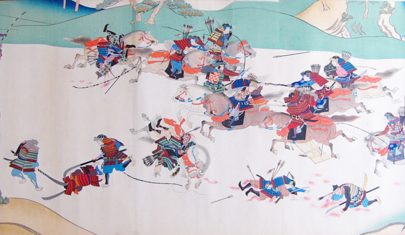 Detail of a scene of Illustrated scroll of Kasuga Gongen Kenki Emaki. By Takashina Takakane. 2nd voleme of 20 handscrolls, ink and colour on silk. 40cm height, Kamakura period, dated 1309. Japan Imperial Collection